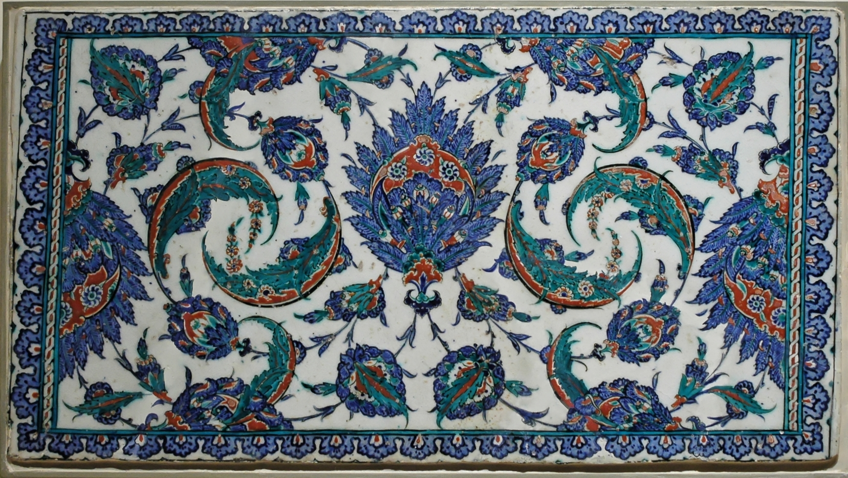 Saz-style decoration panel.